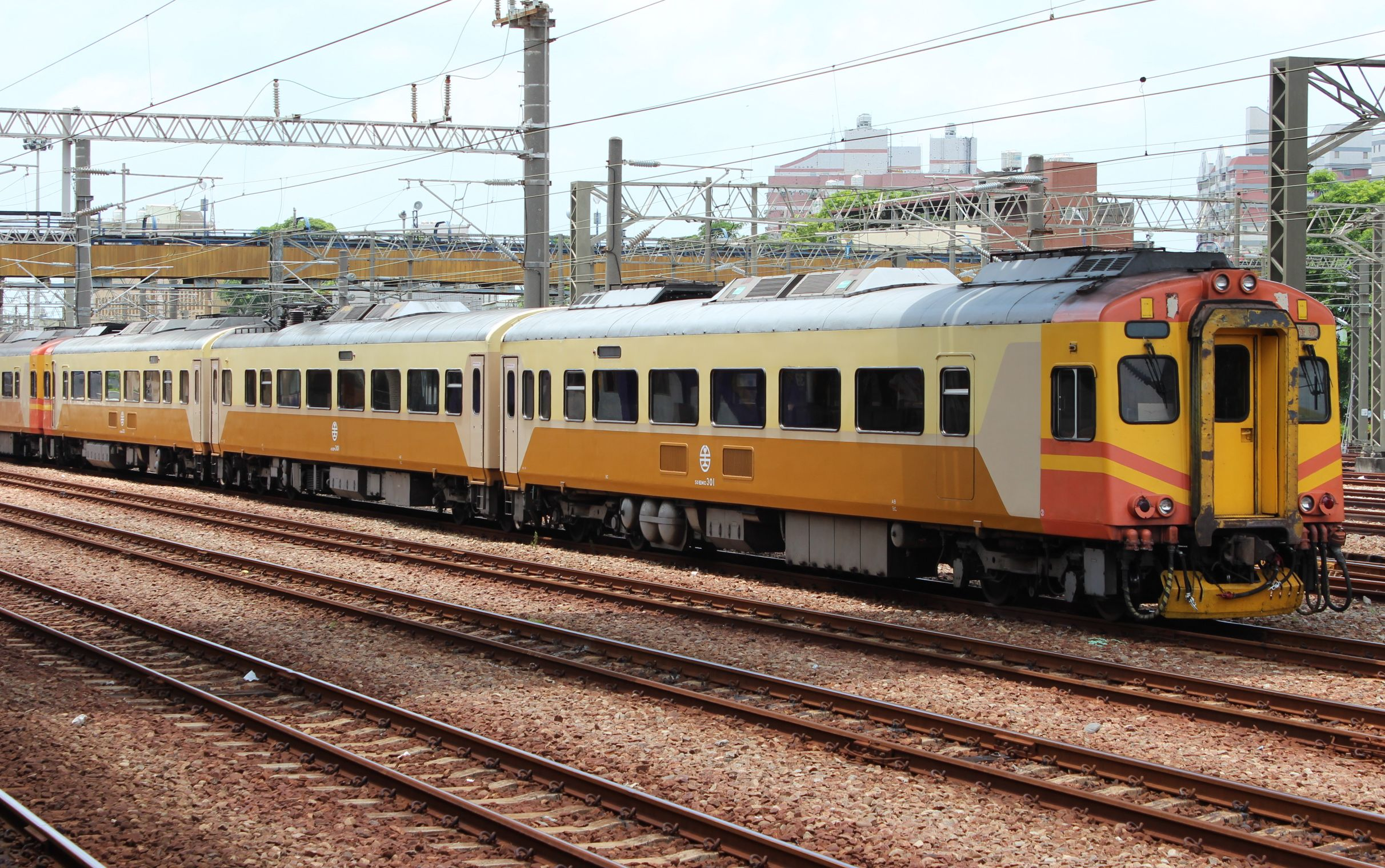 TRA EMU301 at Changhua Station. 中文（台灣）: 臺灣鐵路管理局電聯車EMU301於彰化車站。